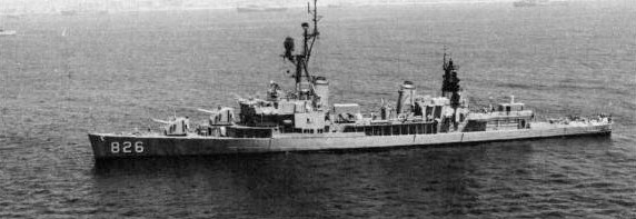 The U.S. Navy destroyer USS Agerholm (DD-826) anchored off Coronado, California (USA), on 7 August 1976, with two dock landing ships and a tank landing ship in the background.